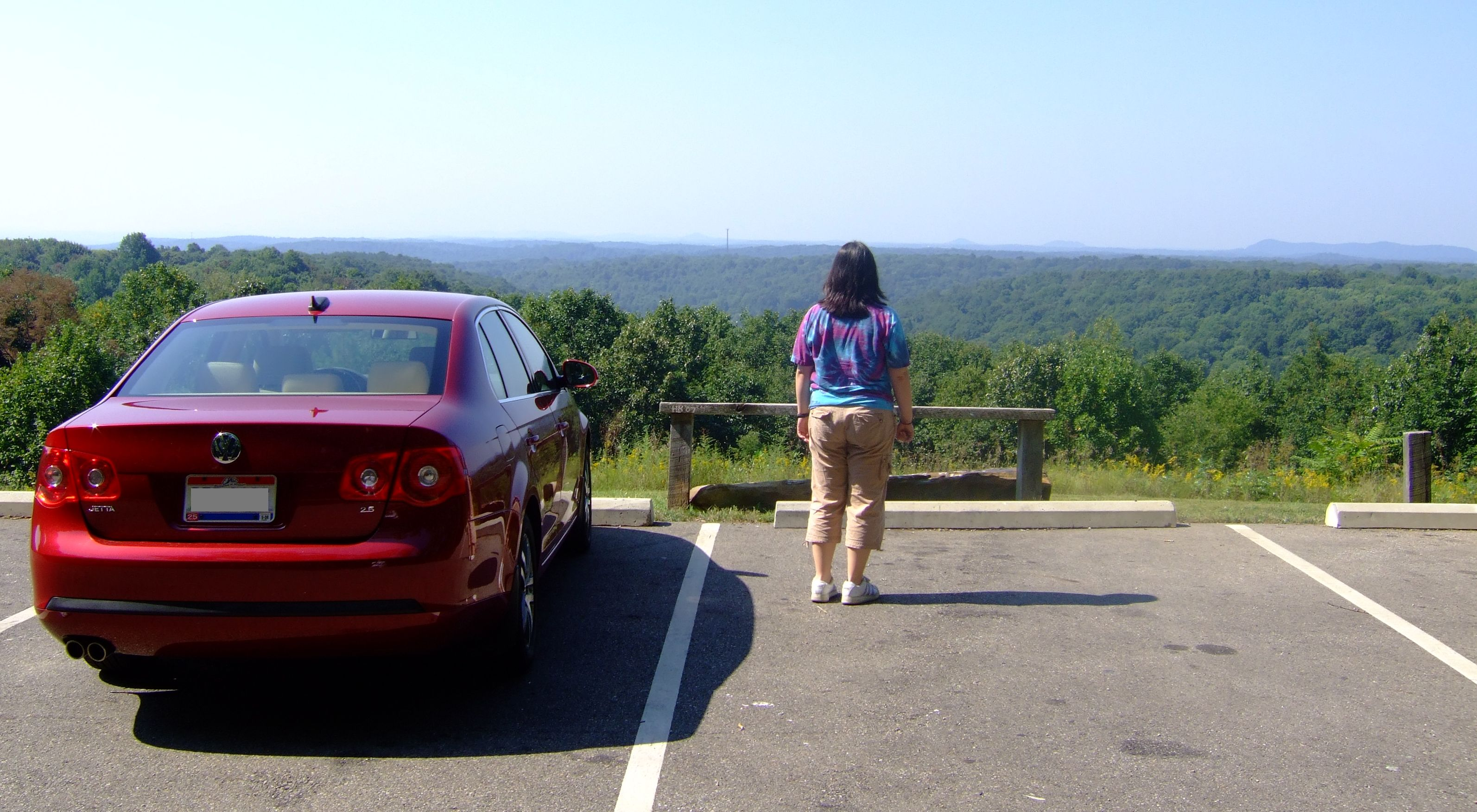 A Scenic Overlook in Scioto Trail State Park near Chillicothe, Ohio. Self made photo.